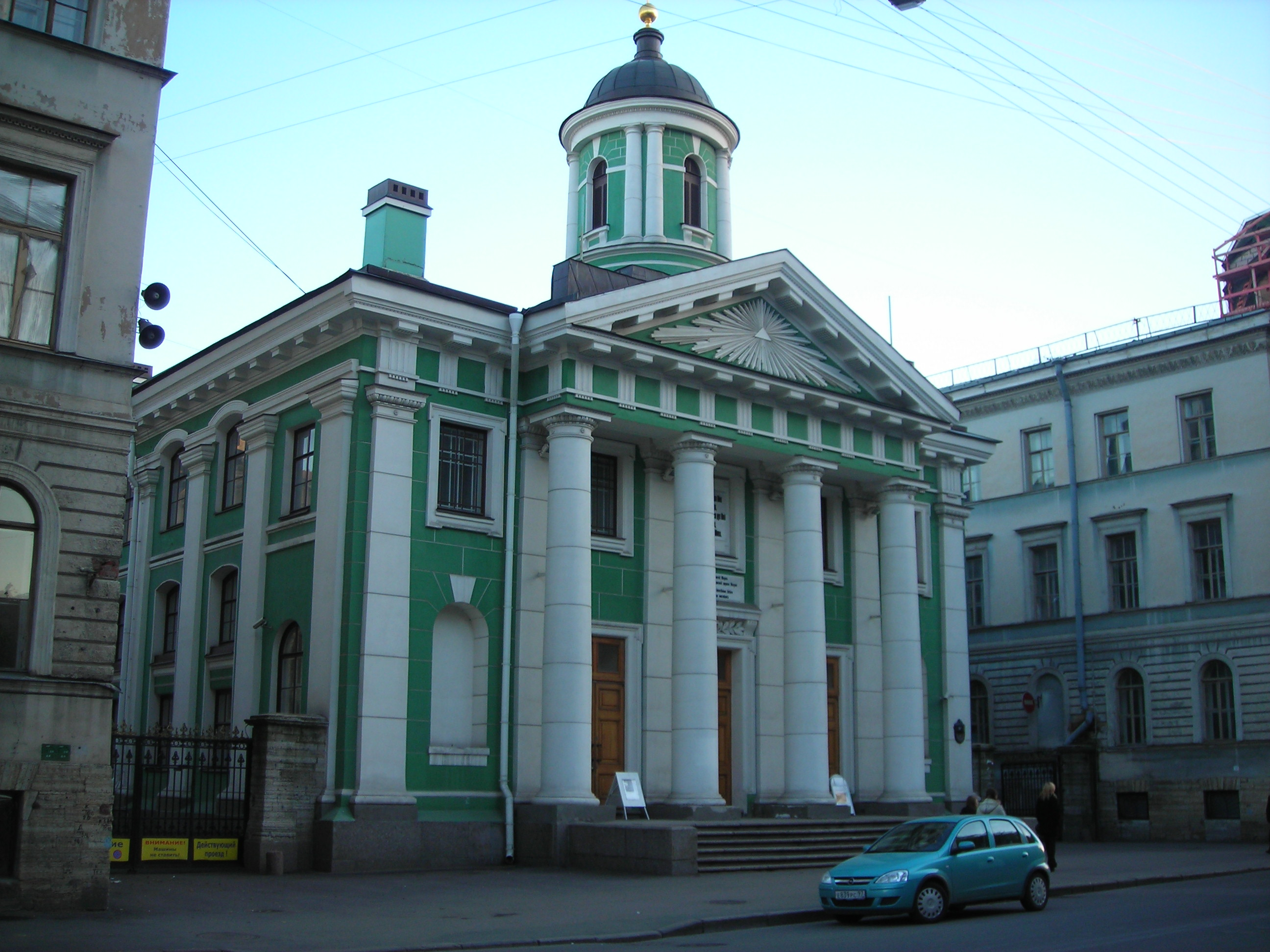 St. Mary's (luteran) Church in St. Petersbourg